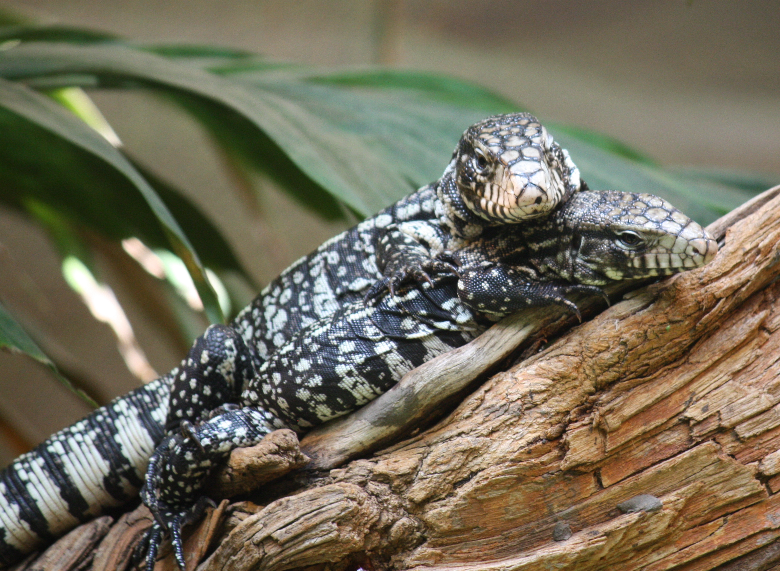 Argentine Tegu (Tupinambis merianae) at the Louisville Zoo